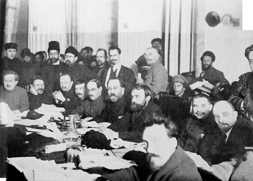 The presidium of the 9th Congress of the Russian Communist Party (Bolsheviks). 1920. Sitting (from left): Abel Yenukidze, Mikhail Kalinin, Nikolai Bukharin, Mikhail Tomsky, Mikhail Lashevich, Lev Kamenev, Evgeny Preobrazhensky, Leonid Serebryakov, Vladimir Lenin and Alexei Rykov. Standing: Nikolay Krestinsky, Vladimir Milyutin, Ivar Smilga